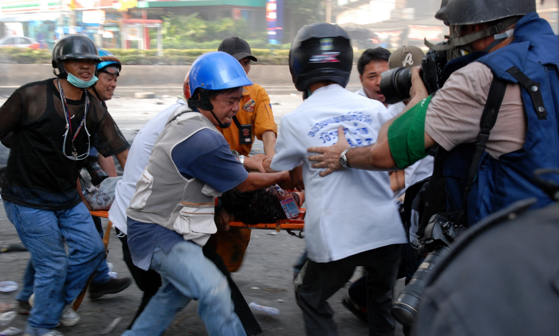 A wounded man is carried out from Rama 4 in to Soi Ngam Duphli. Hardcore foreign photojournalists obstruct the rescuers (who are not yet out of the line of fire) just long enough so they can get their "money shot". A Thai photojournalist is one of the people carrying the stretcher and apparently is smiling to the wounded man in order to calm him down. The wounded man had been lying out on Rama 4 under army fire for approximately 8 minutes. Thai rescue workers are the unsung (and perhaps only) heroes of this conflict, risking their lives under very difficult circumstances to save the wounded, irrespective of their alliance.